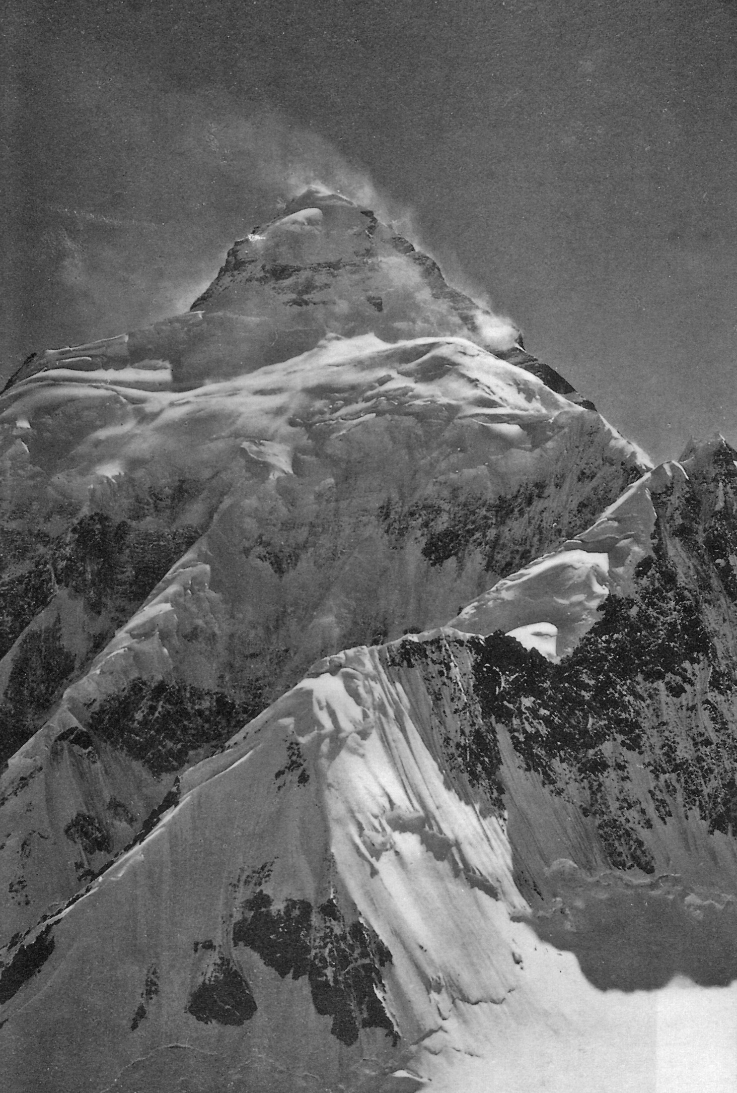 The East Face of K2, photographed from Skyang Kangri during the 1909 expedition to the mountain